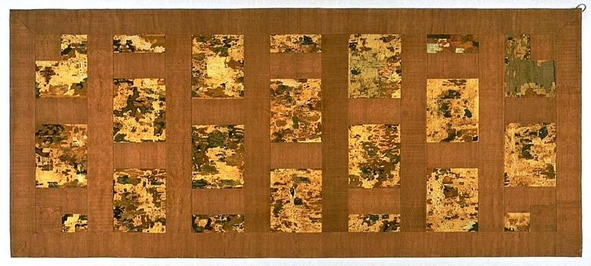 Kenda Kokushi monk's surplice (犍陀穀糸袈裟, Kenda kokushi kesa).